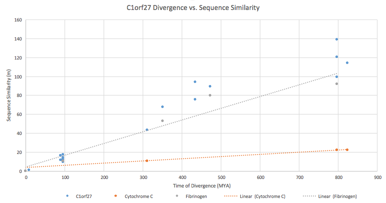 divergence graph of c1orf27